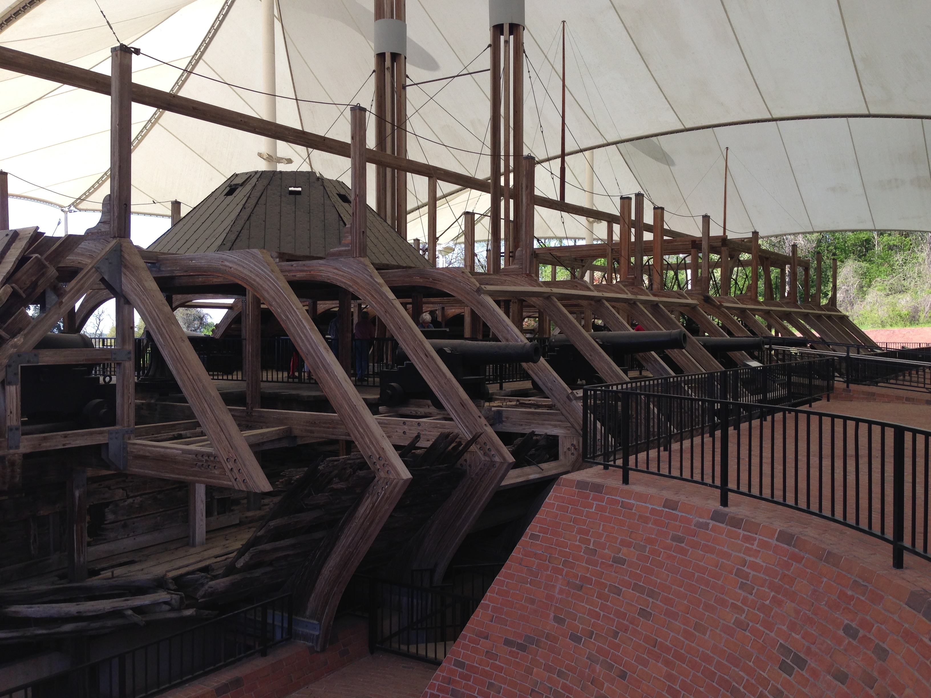 USS Cairo in Vicksburg National Military Park, Mississippi.